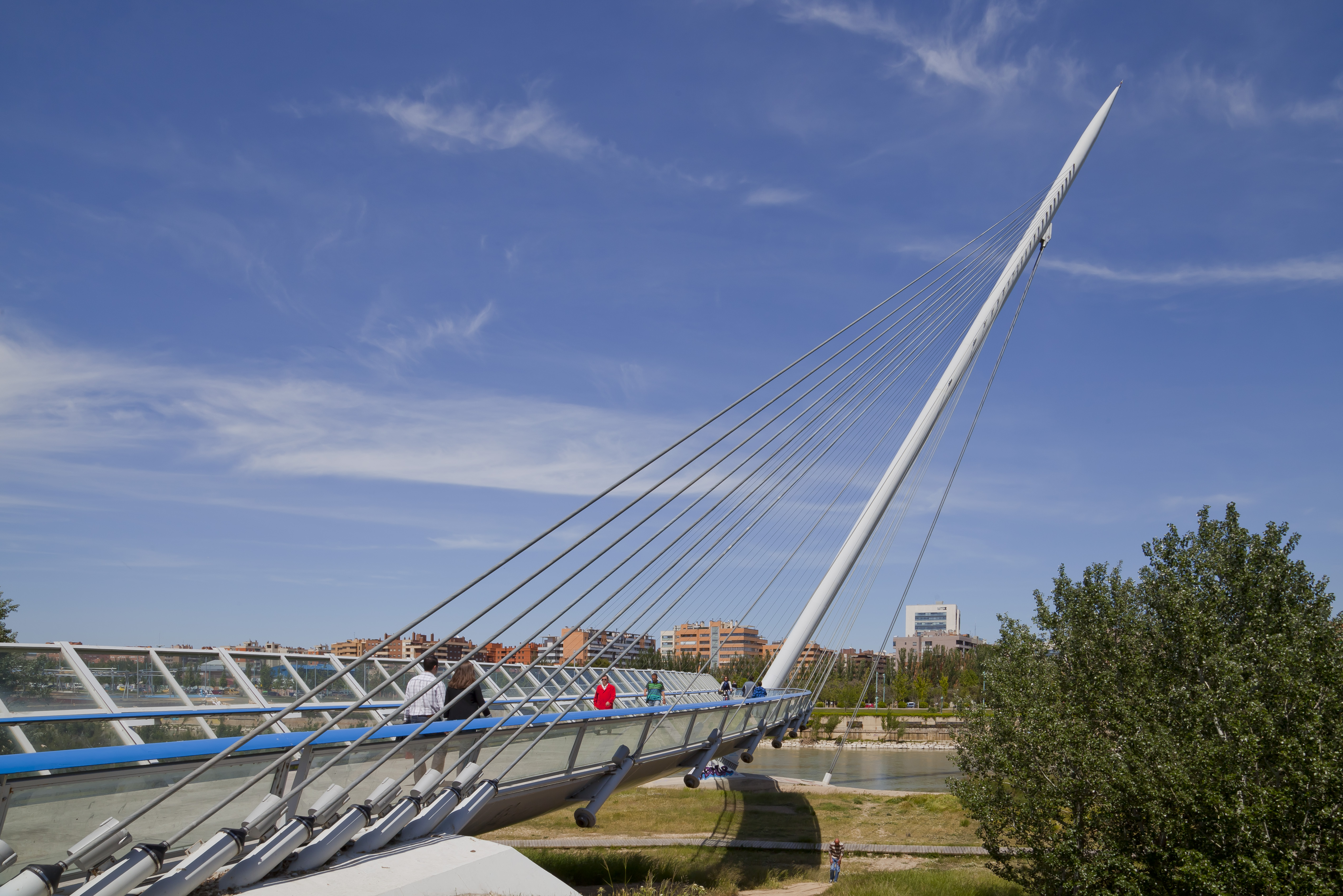 Pasarela del Voluntariado, Saragossa, Spain